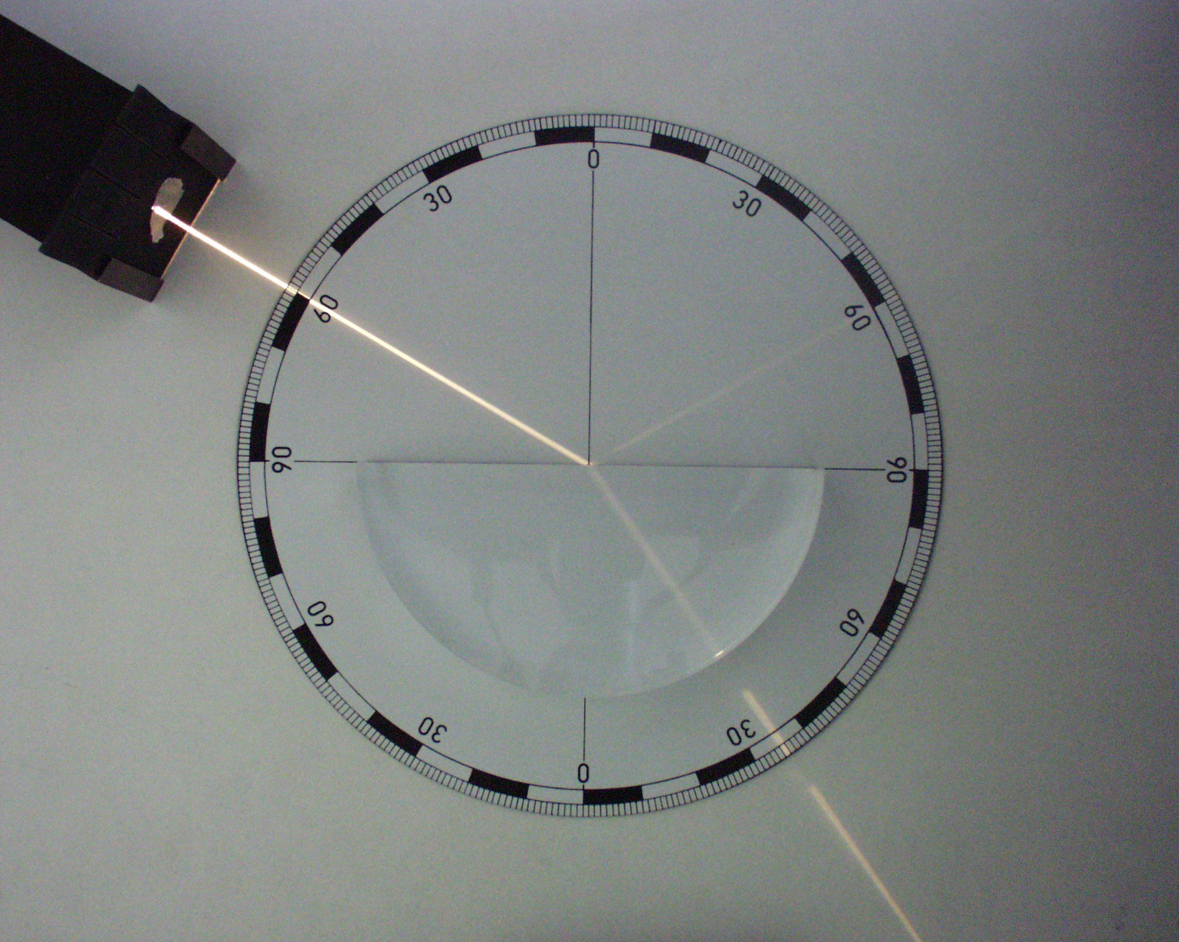 Refraction